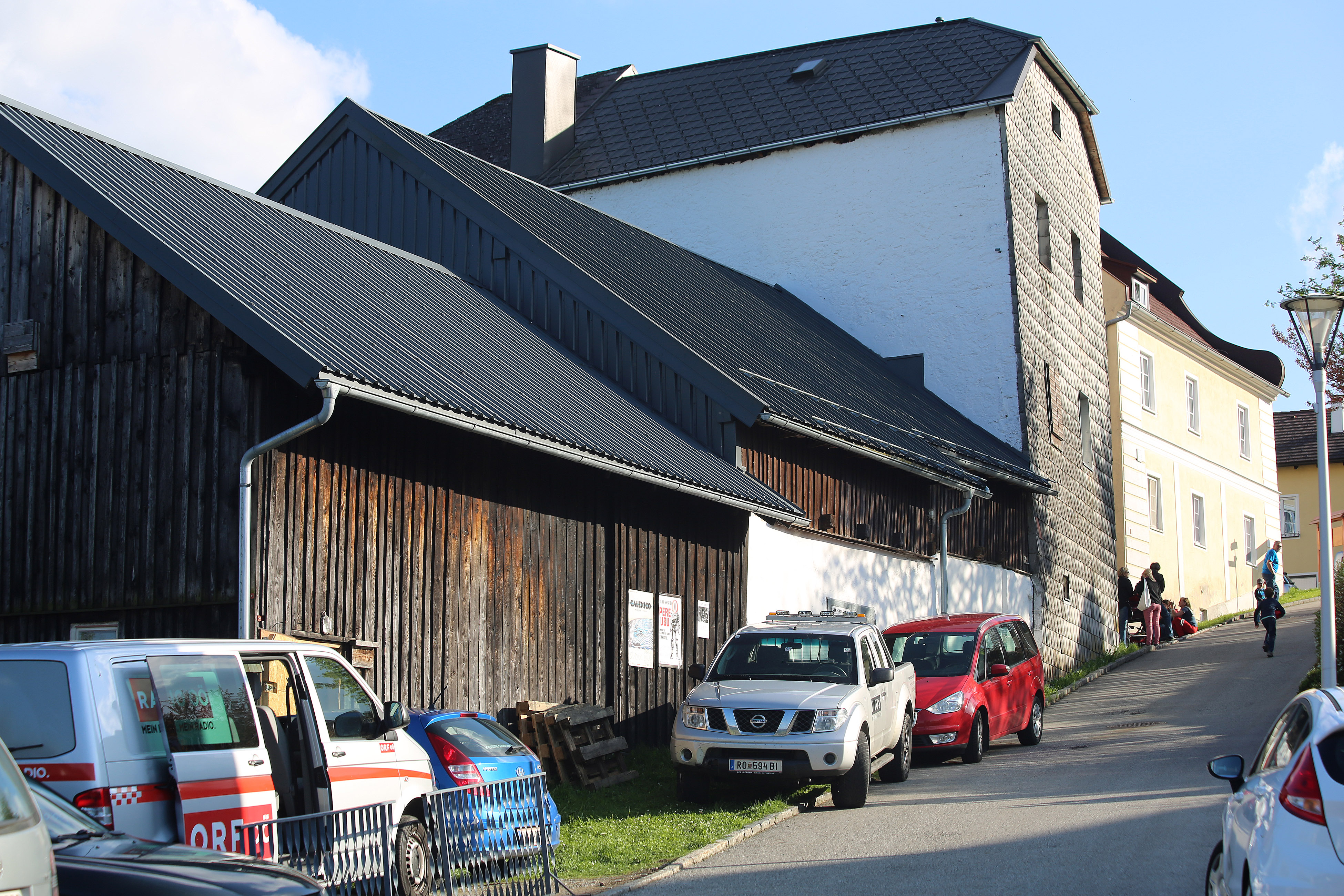 Jazzatelier Ulrichsberg Ulrichsberger Kaleidophon 2013 (Ulrichsberg, Upper Austria)